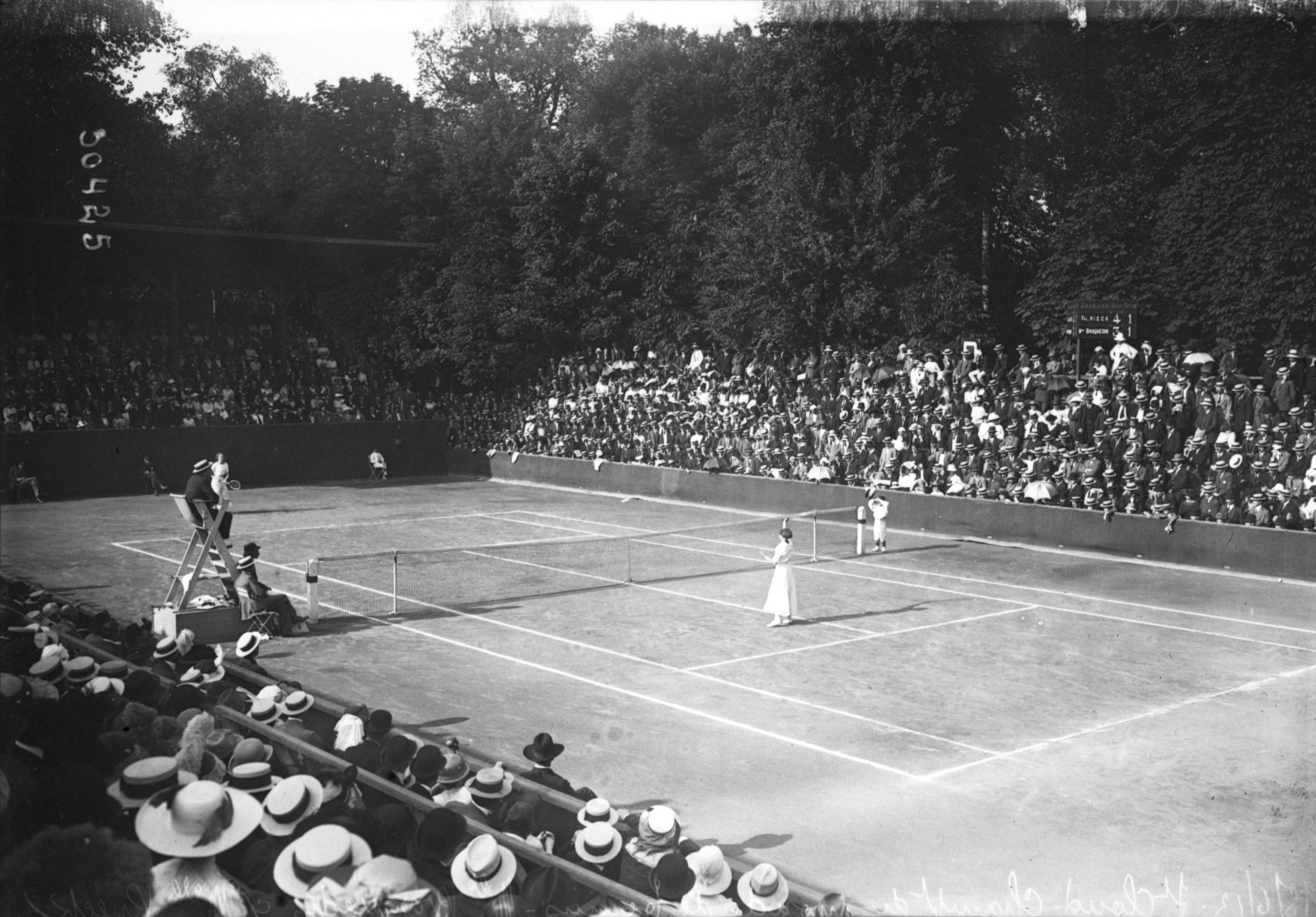 1913 World Hard Court Championships tennis tournament played on clay court at Stade Français, Paris. Match shown is the ladies final between Mieken Rieck and Marguerite Brocquedis (6–4, 3–6, 6–4).